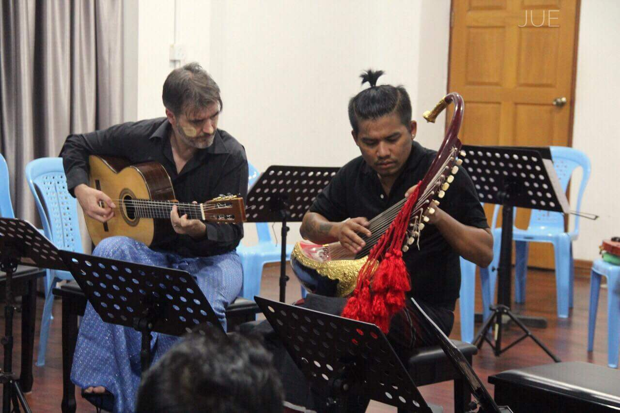 Guitar and Saung gauk (Burma harp)